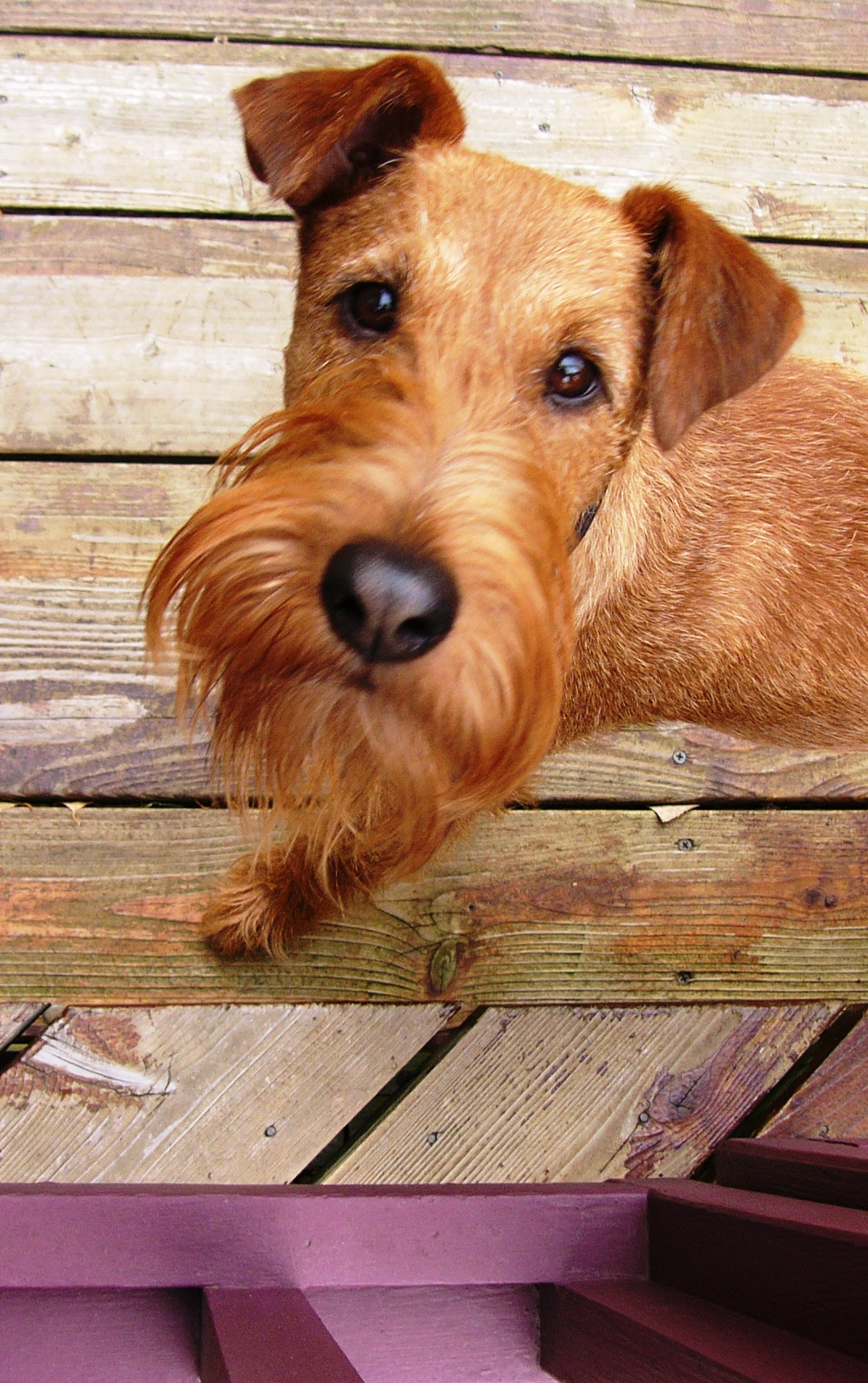 Irish Terrier